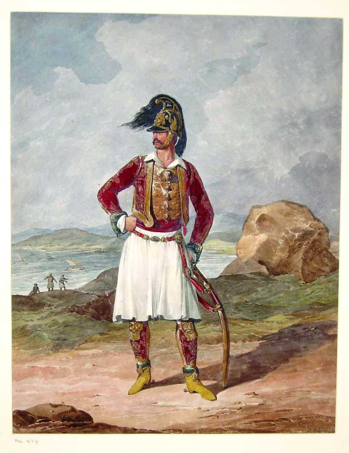 Field Officer. The Duke of York's Greek Light Infantry, 1813. drawn 1813 by Denis Dighton (1791-1827, , Sir Richard Church (1784-1873))